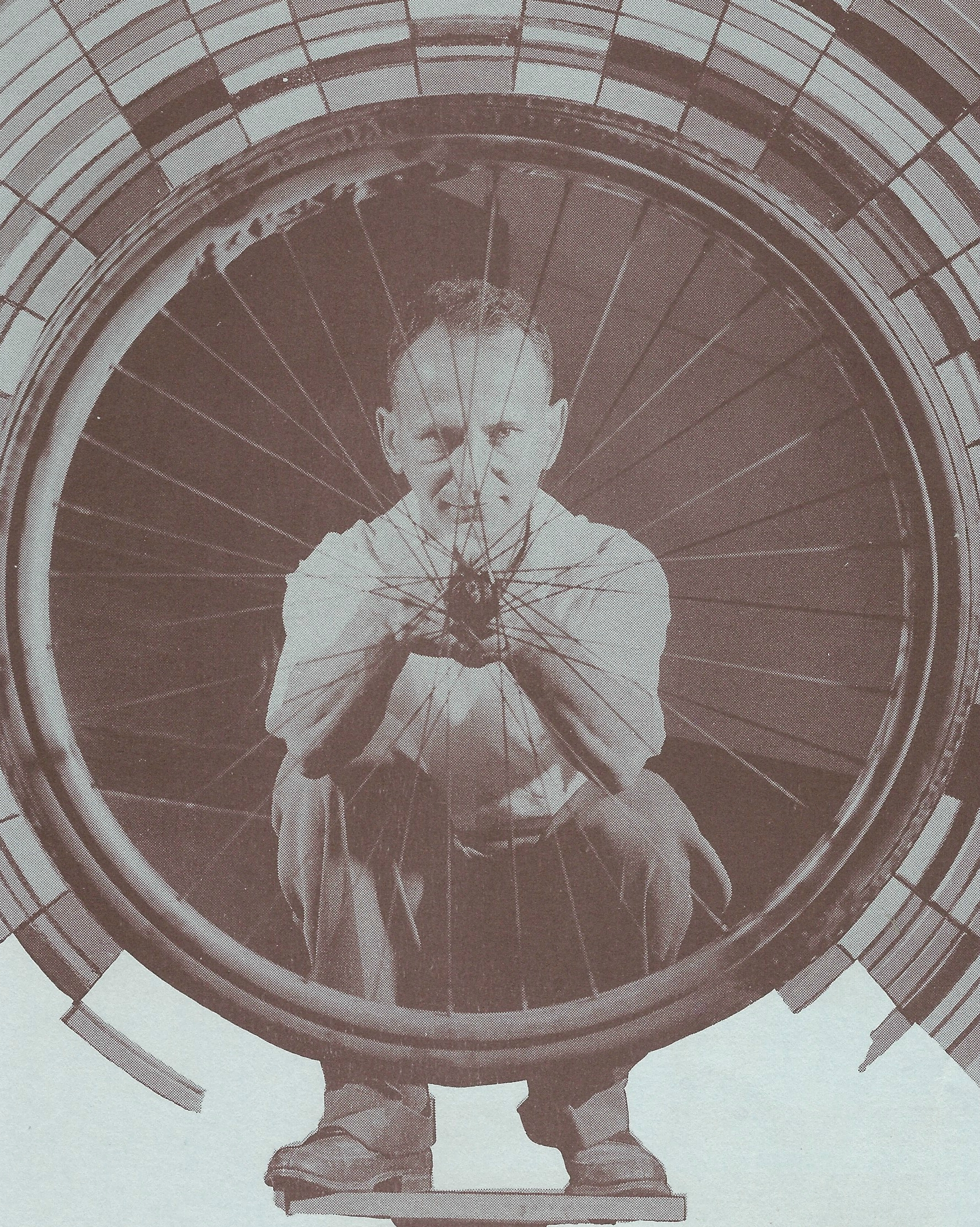 Raymond William Suchy Professor of Physics. University of Wisconsin-Miwaukee. Demstrating the Conservation Laws of Physics circa 1959.